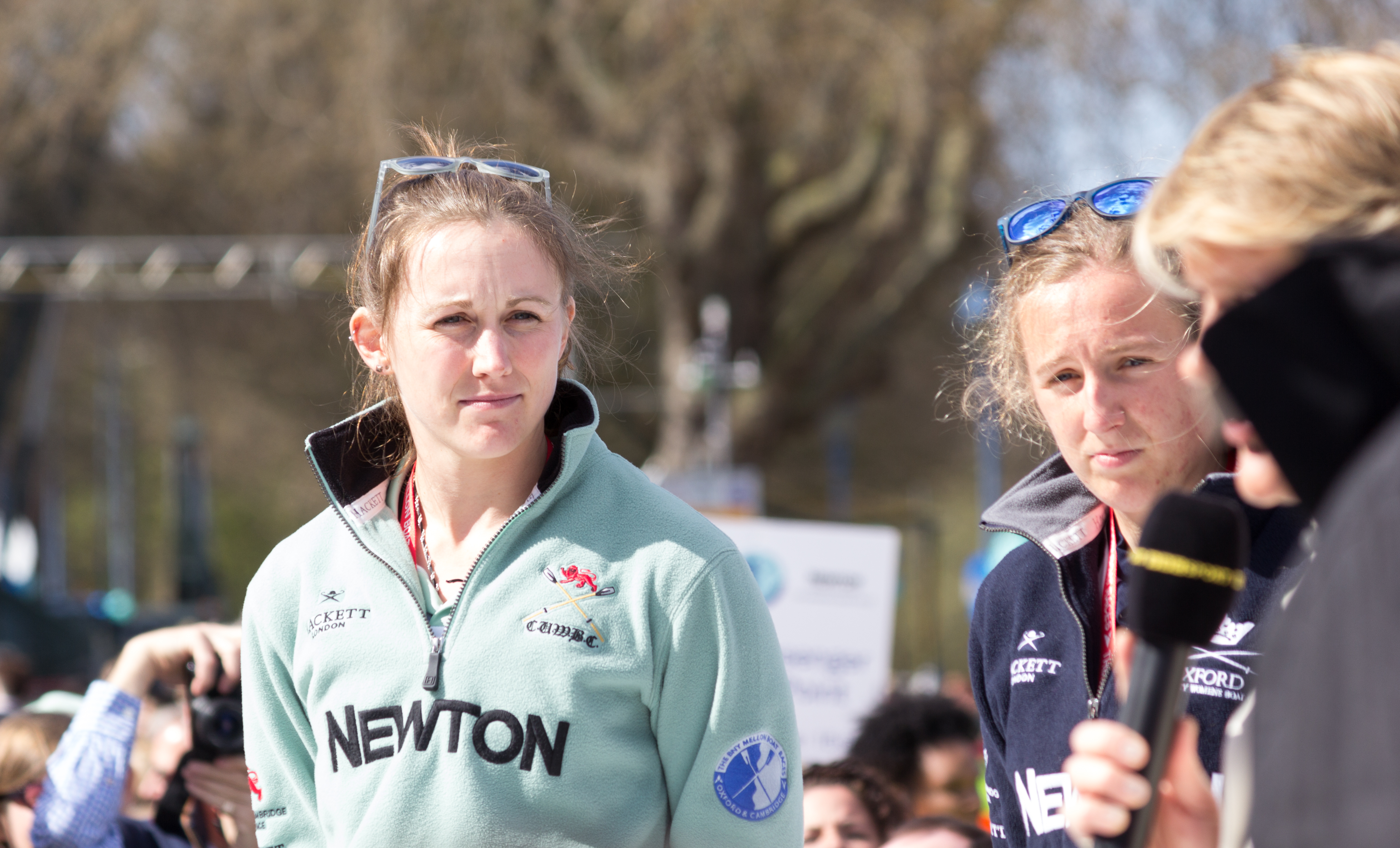 The Newton Women's Boat Race 2015 - Caroline Reid (left) & Anastasia Chitty (right) at the coin toss.